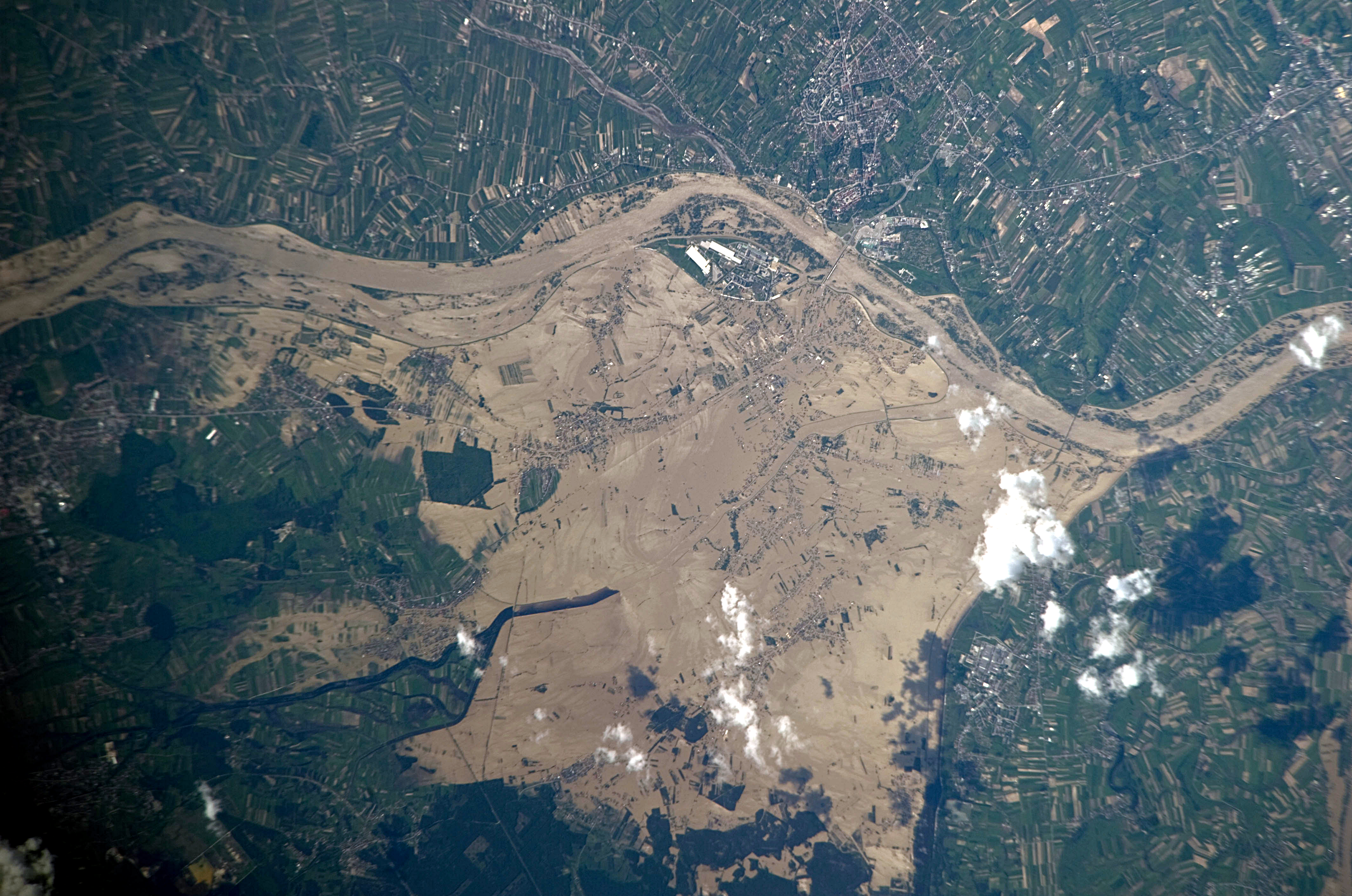 This image, taken by astronauts on-board the International Space Station, shows widespread flooding along the Vistula River in south-eastern Poland near Sandomierz. Several towns have been completely or partially inundated including Gorzyce, Sokolniki, and Trześń in addition to large numbers of agricultural fields (normally green as visible at image top and bottom right).